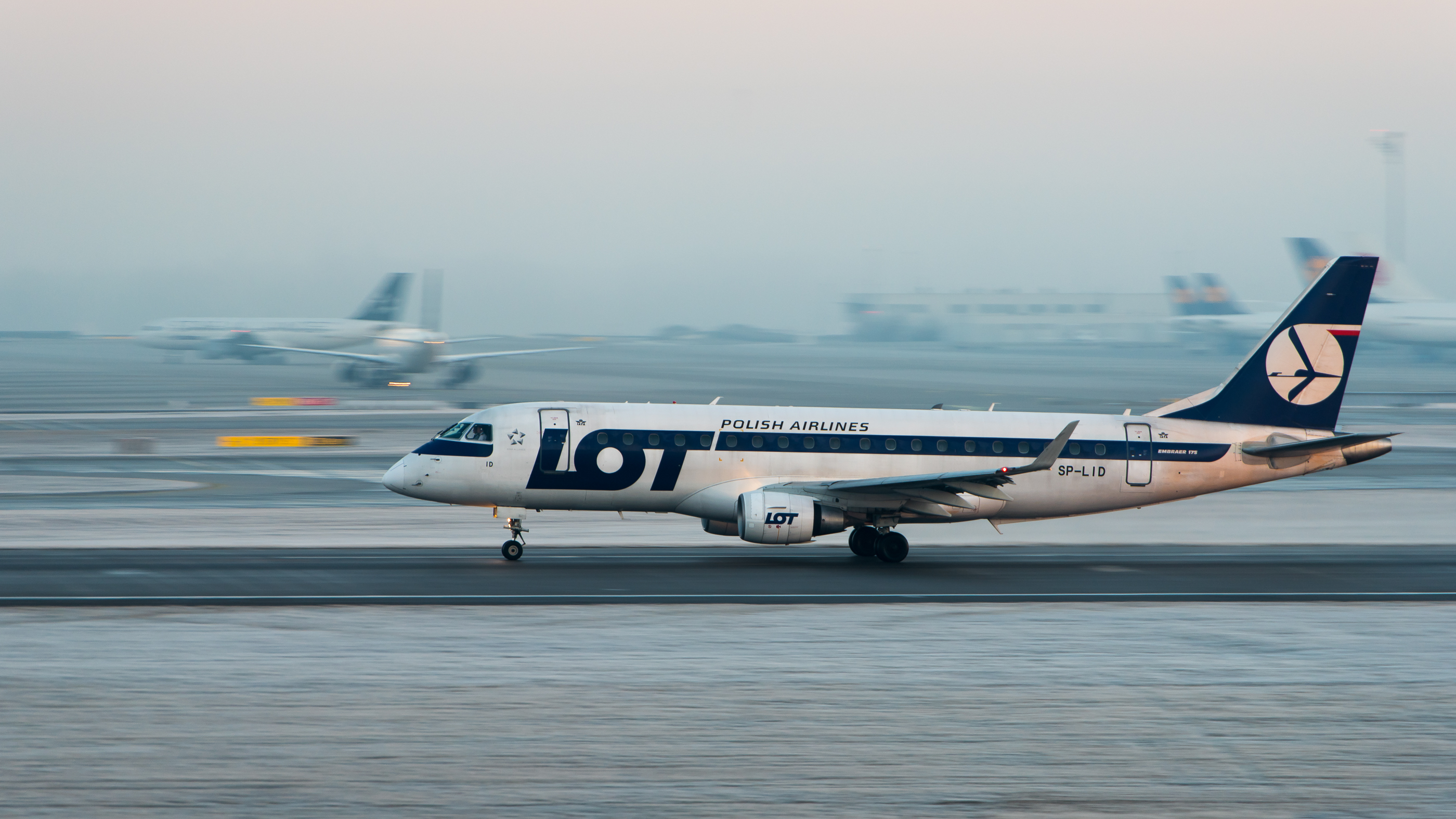 LOT (Polish Airlines / Polskie Linie Lotnicze) Embraer 175LR (ERJ-170-200LR) (reg. SP-LID, msn 17000136) at Munich Airport (IATA: MUC; ICAO: EDDM).